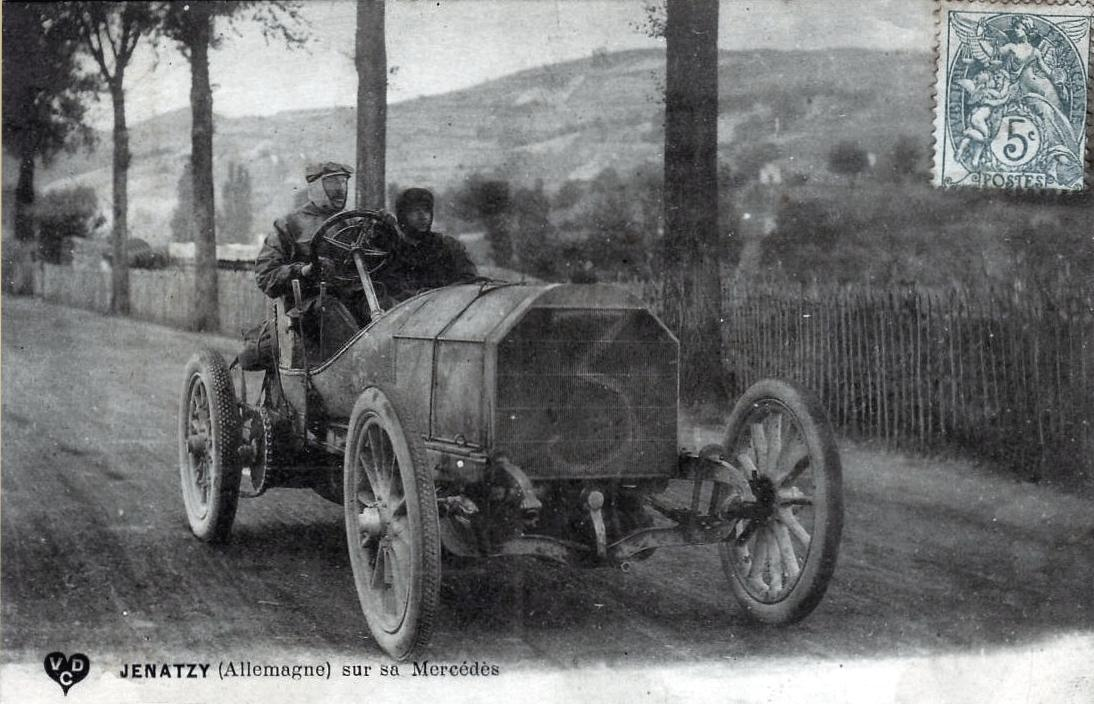 Jenatzy, 1905 Gordon Bennett, driving a Mercedes. Postcard, published by Veuve Durand and Compagnie (VDC)